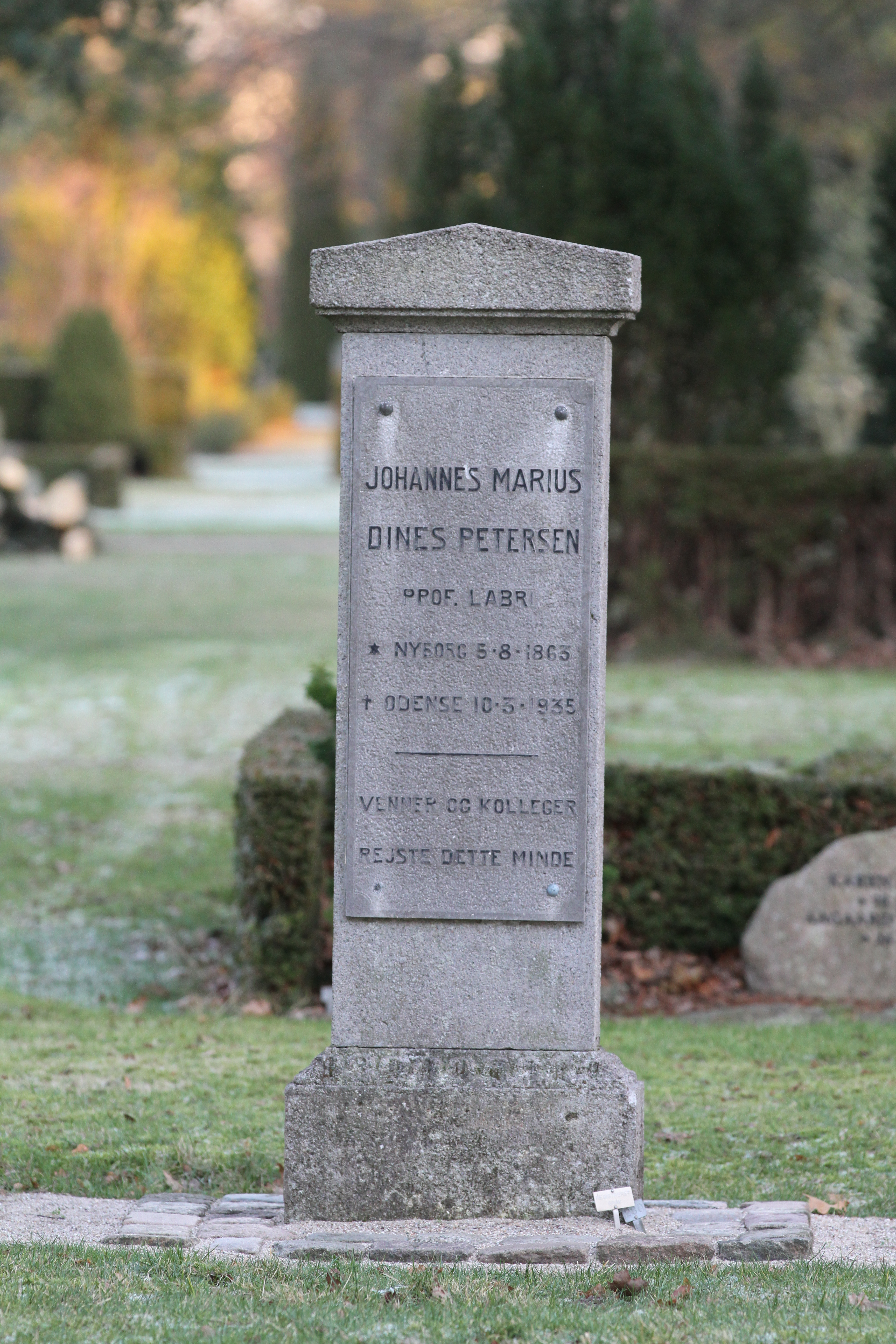 Professor Labri's (Johannes Marius Dines Petersen) headstone in Assistens Cemetery, Odense, Denmark.